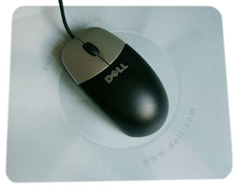 Dell Mouse + Pad